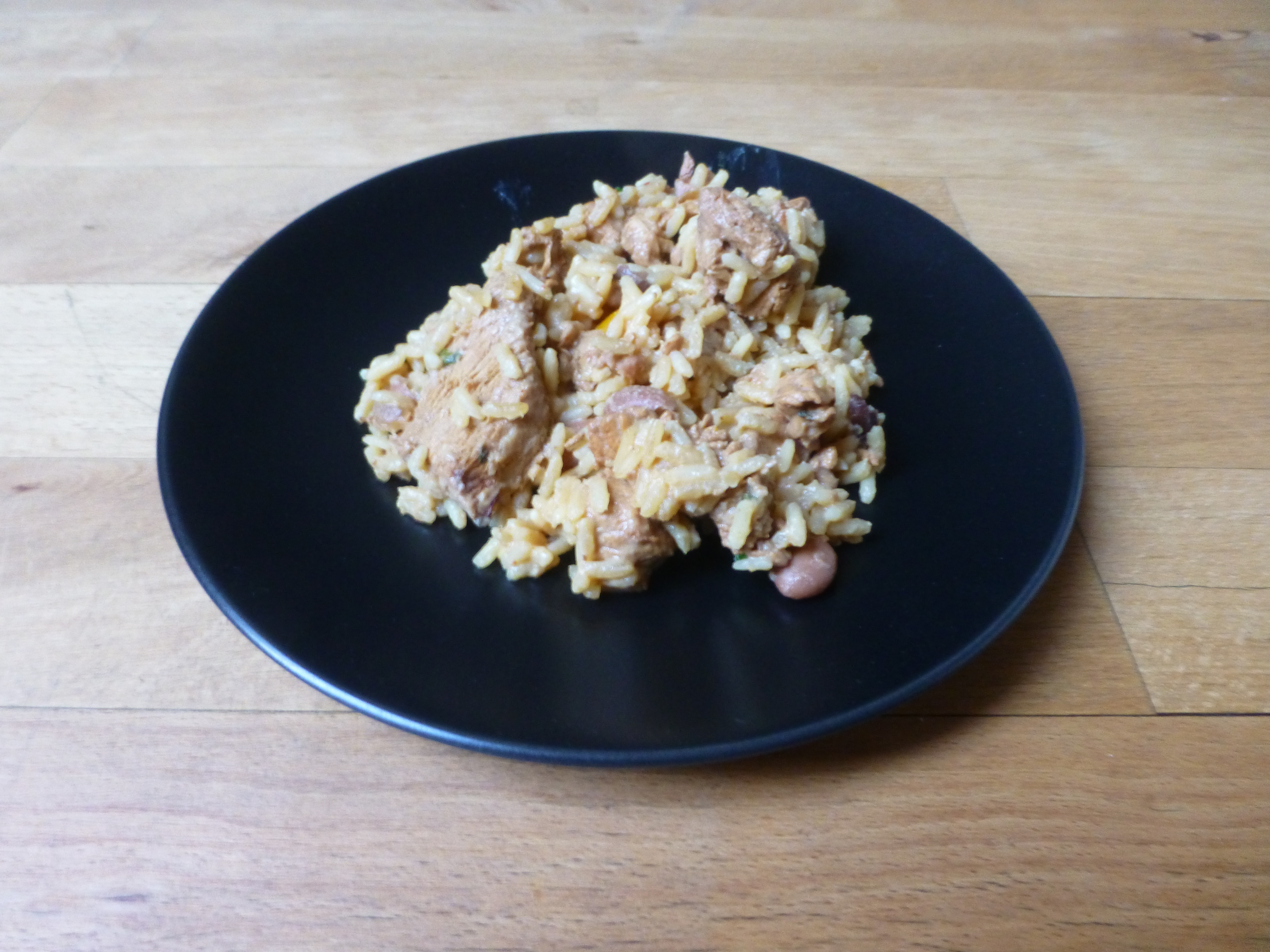 Pelau, a rice dish from Trinidad & Tobago.